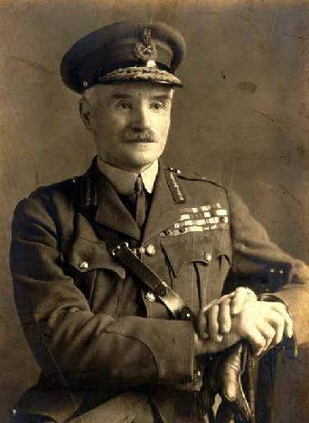 Portrait of Sir Beauvoir De Lisle (1864-1955). Official War Office Photograph.